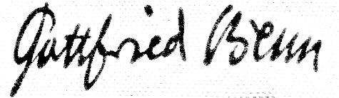 Signature of German writer Gottfried Benn